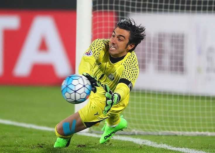 AFC Champions League qualifying play-off, Esteghlal Al-Sadd, Azadi Stadium